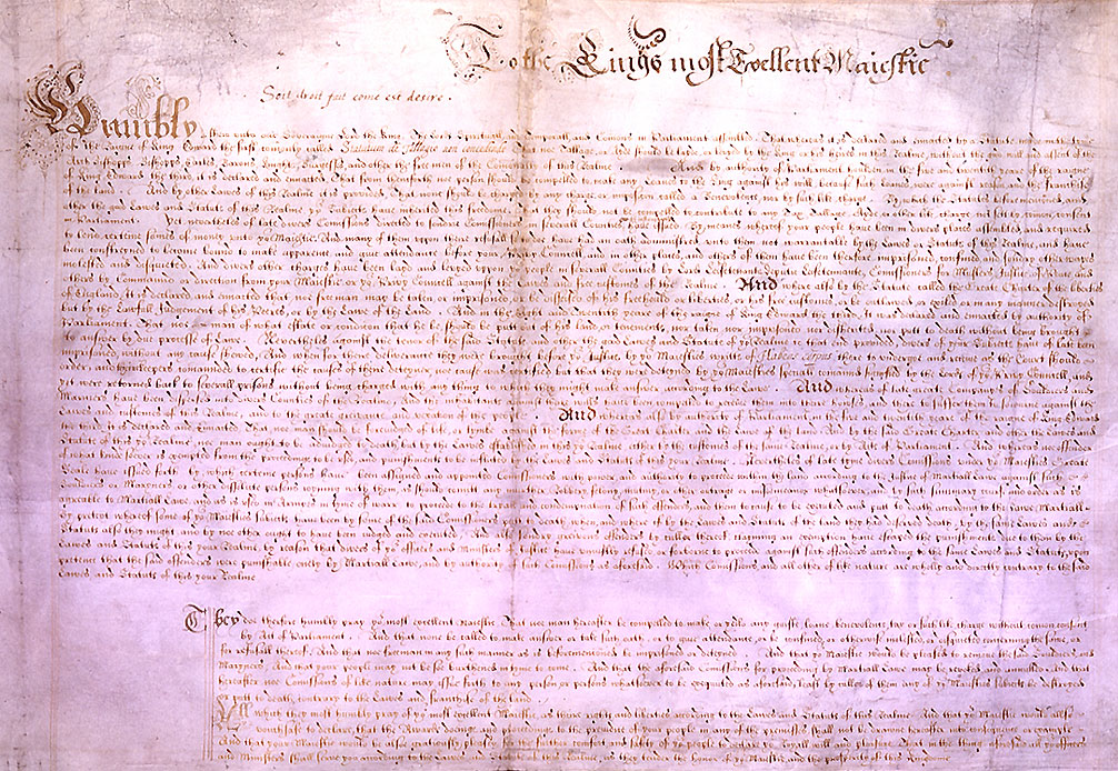 The Petition of Right, a major English constitutional document that sets out specific liberties of the subject that the king is prohibited from infringing. Drafted by a committee headed by Sir Edward Coke, it was passed by the House of Commons on 8 May 1628, ratified by both the House of Commons and House of Lords on 26 and 27 May 1628, and eventually ratified by King Charles I of England on 7 June 1628.